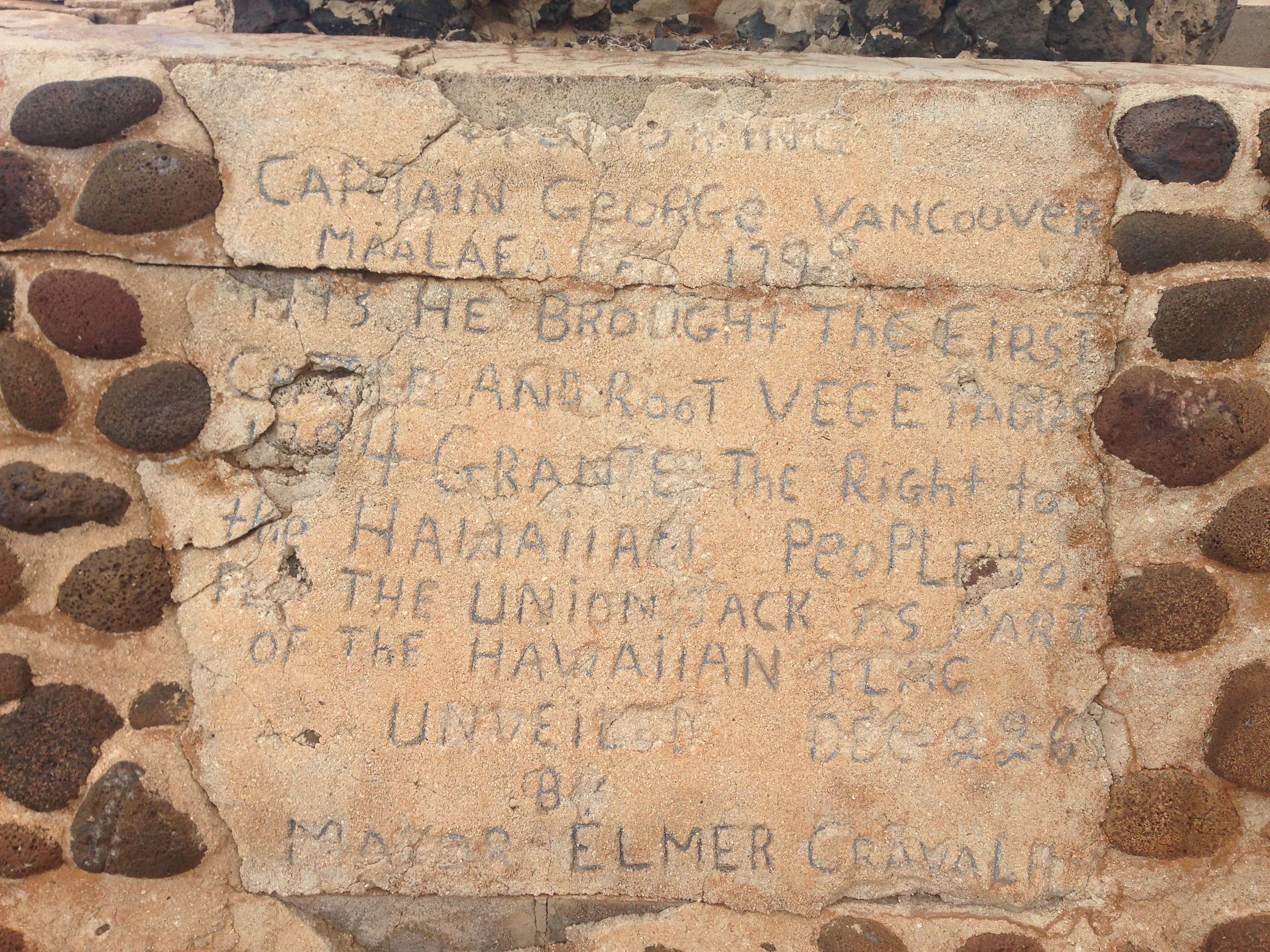 Captain George Vancouver, Maalaea Bay 1792. [In] 1793 he brought the first cattle and root vegetables. 1794 [he] granted the right to the Hawaiian people to [...] the union jack as part of the Hawaiian flag. Unveiled Dec-2 2-6 [?] by Ma[...] Elmer Craval[...]